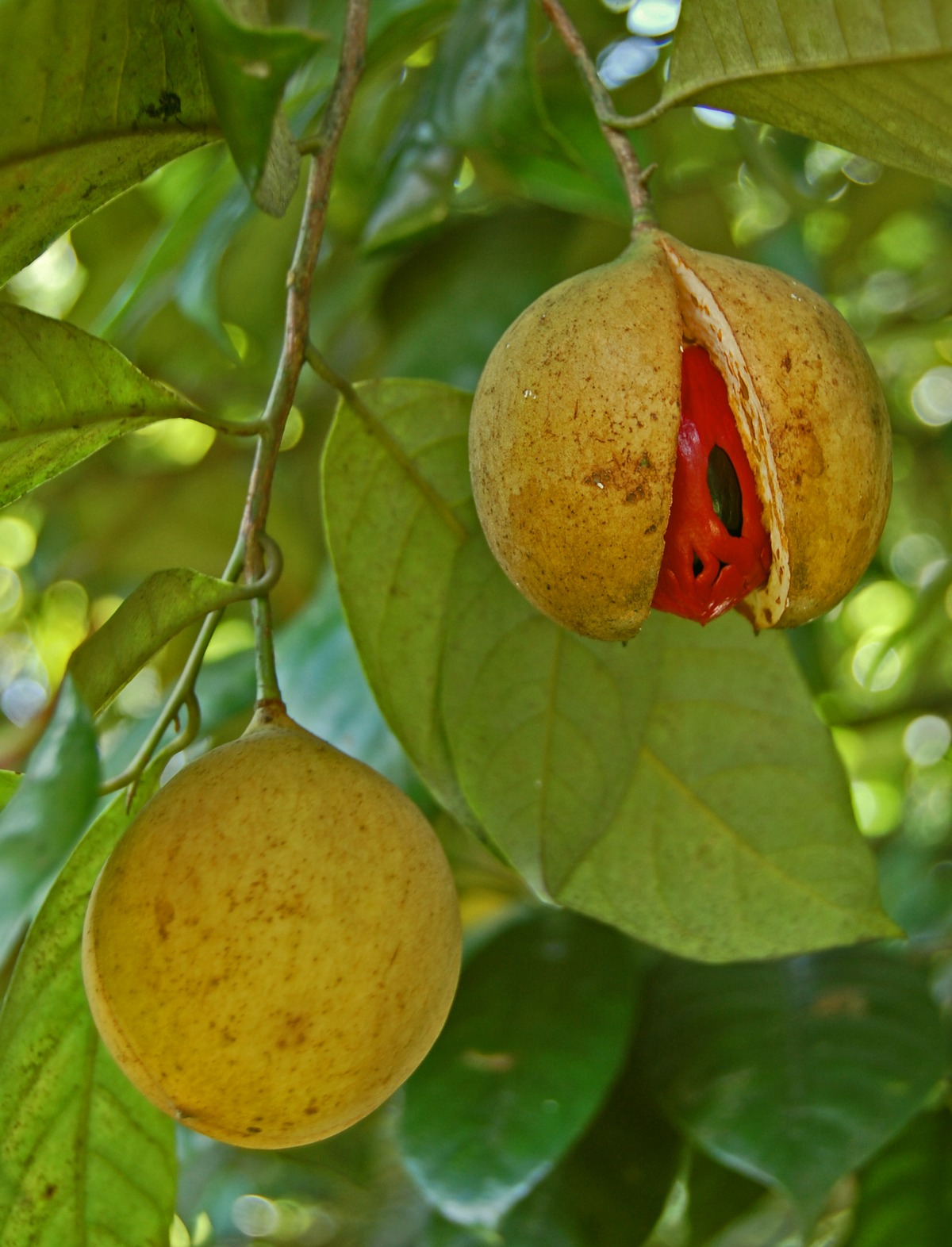 Myristica fragrans, fruits. Situgede, Bogor, West Java, Indonesia